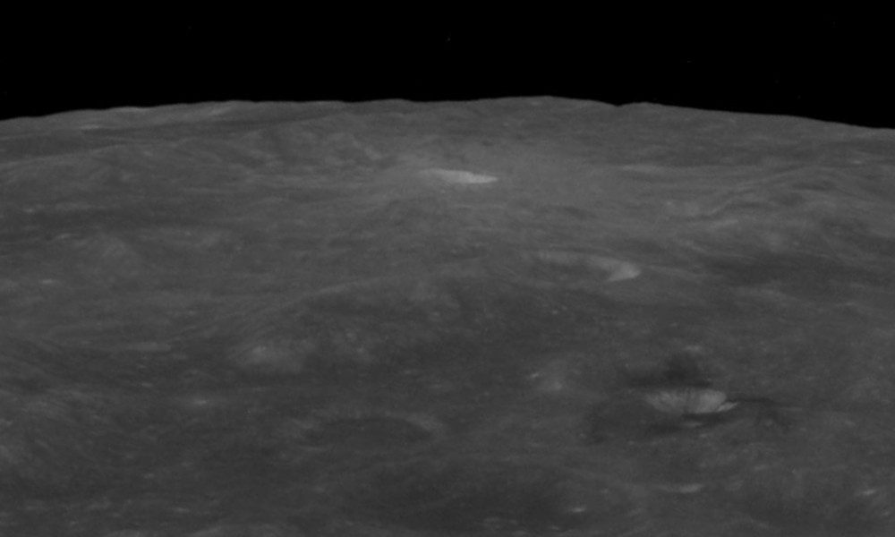 Oblique view showing the vicinity of Fechner crater on the lunar far side. Bright crater above center is Fechner T. Rotated and cropped in GIMP.